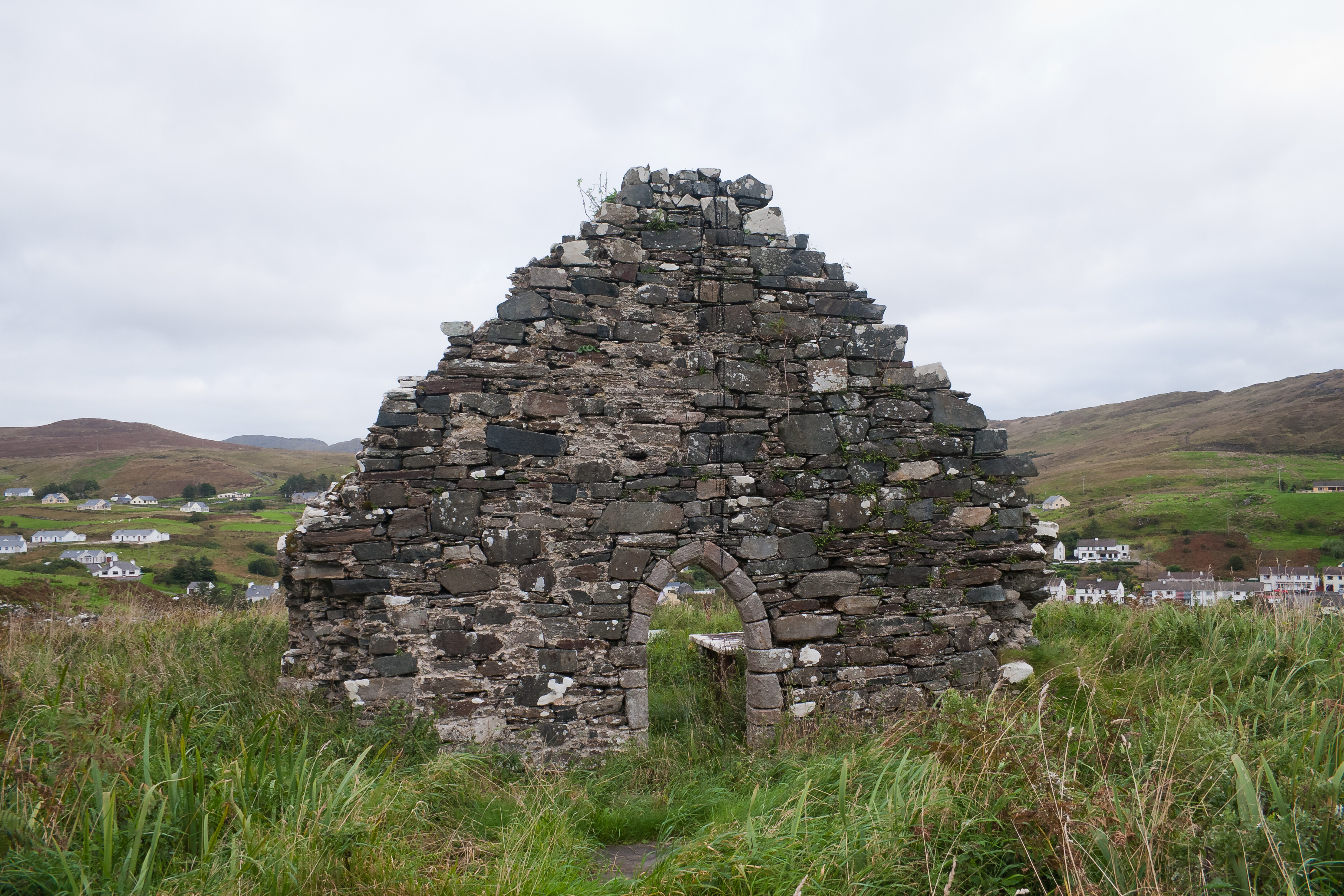 West gable of the old church of Kilcar which was already in ruins in 1622 but continued to be used until 1828 when a new church within the village was built (which is now disused as well).